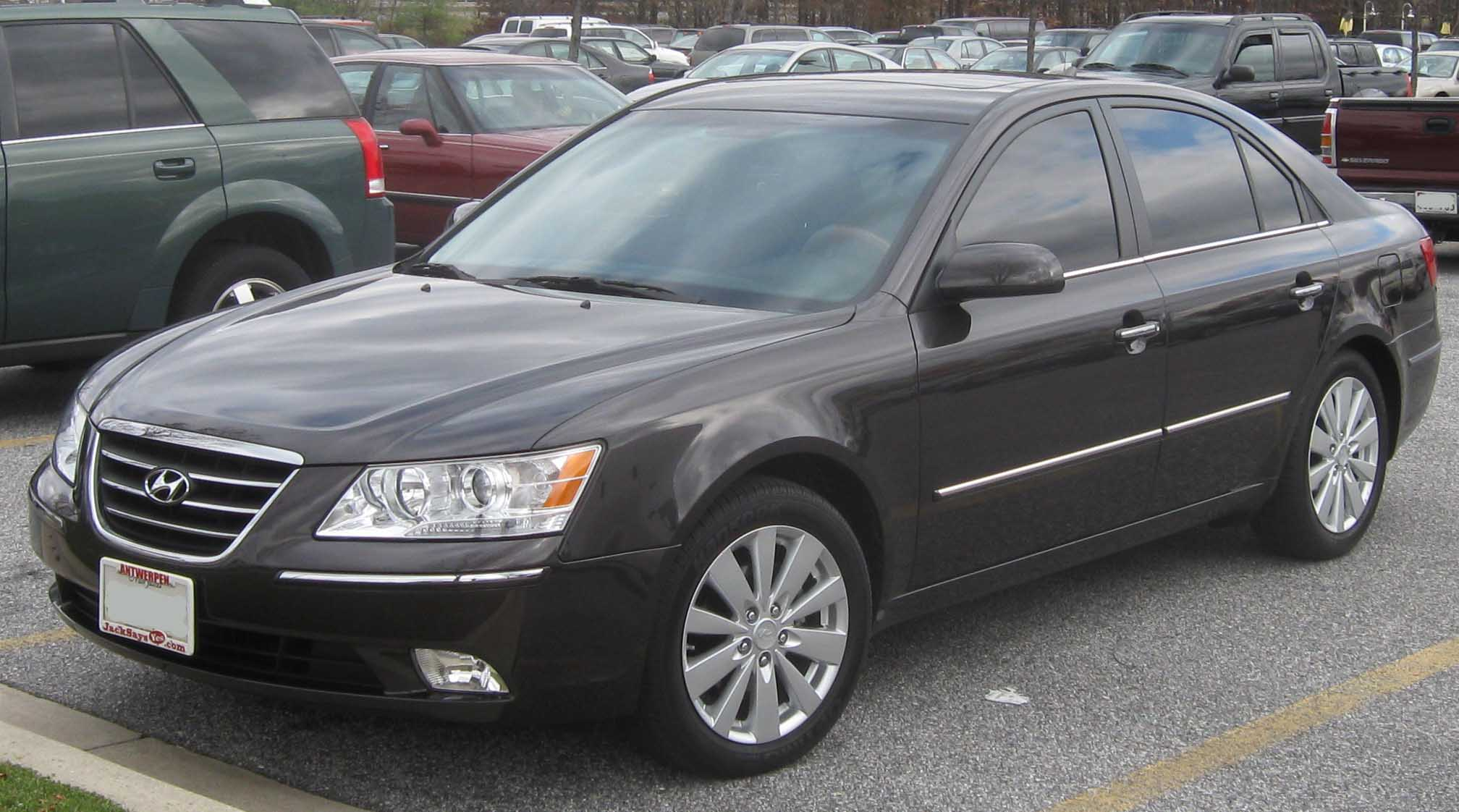 2009 Hyundai Sonata photographed in Laurel, Maryland, USA.